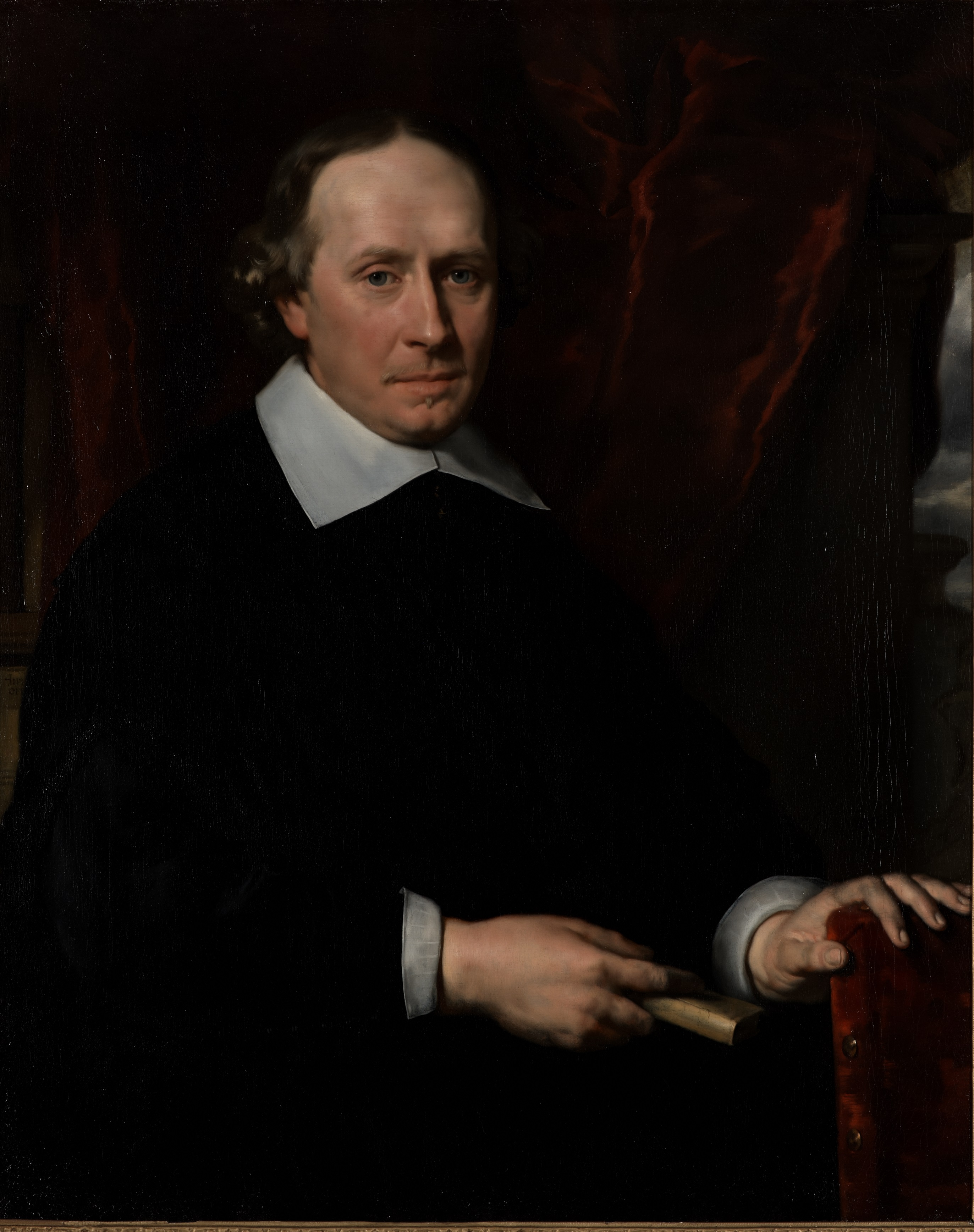 Johannes Antonides van der Linden also Lindanus, Jan Antonides van der Linden, (1609-1664) Dutch physician, botanist and librarian